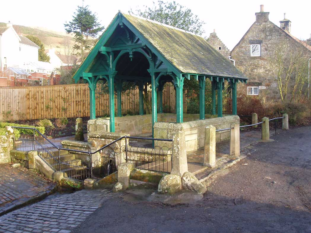 The Well, Scotlandwell, Perth & Kinross District, Tayside Region, Scotland, UK